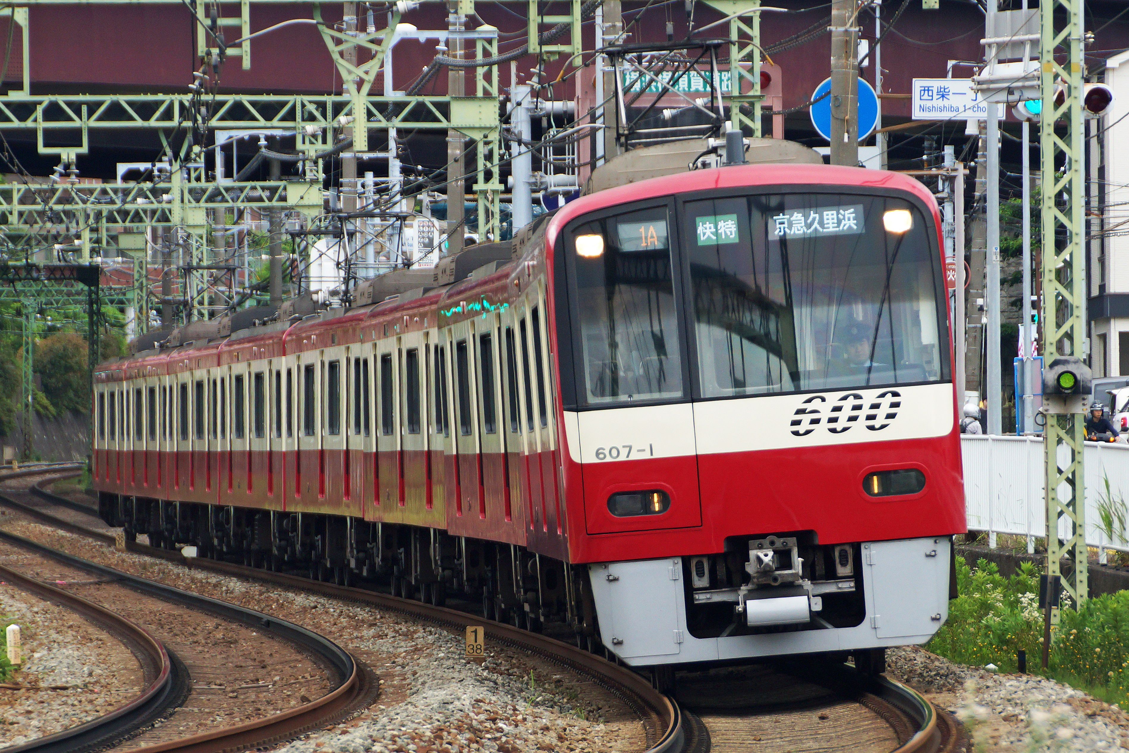 Keikyu 600 series EMU set 607 between Nokendai and Kanazawa-Bunko stations on a down limited express service to Keikyu Kurihama